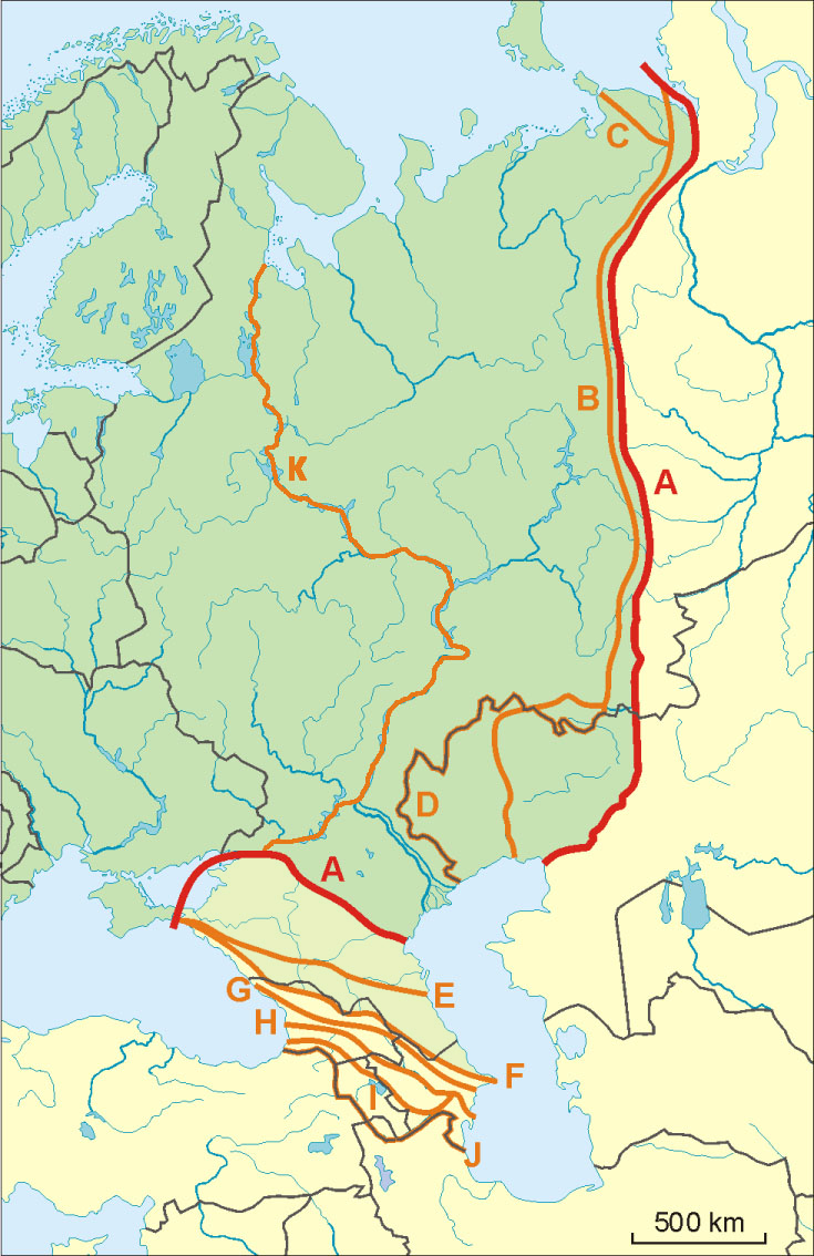 Map of Europe (green) - Asia (yellow) border. Red line - border accoring to International Geographical Union and most European geographers. A: Ural Mountains-Emba River and Kuma Manyche Depression-Lower Don Orange lines - other variants of border: B: Ural Montains-Ural River C: Ural Mountains-Pechora River D: Ural Mountains-Kazakhstan Border E: Kuma Manyche Depression (at Rivers Kuma and Manyche) F and G: Lines on the Grear Caucasus watershed H: Meso-Caucasus at Rivers Rioni and Kura I and J: Lines on the Lesser Caucasus K: Miles Clark's circumnavigation of Europe route through Russian waterways